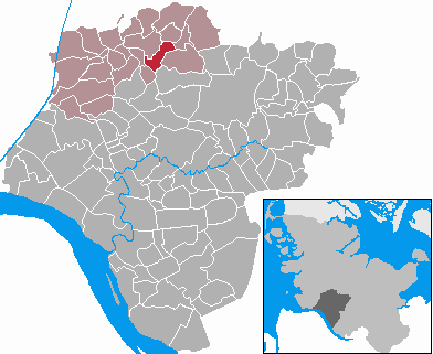 This map shows the area of the municipality Pöschendorf in the Kreis (district) Steinburg, Schleswig-Holstein, Germany.